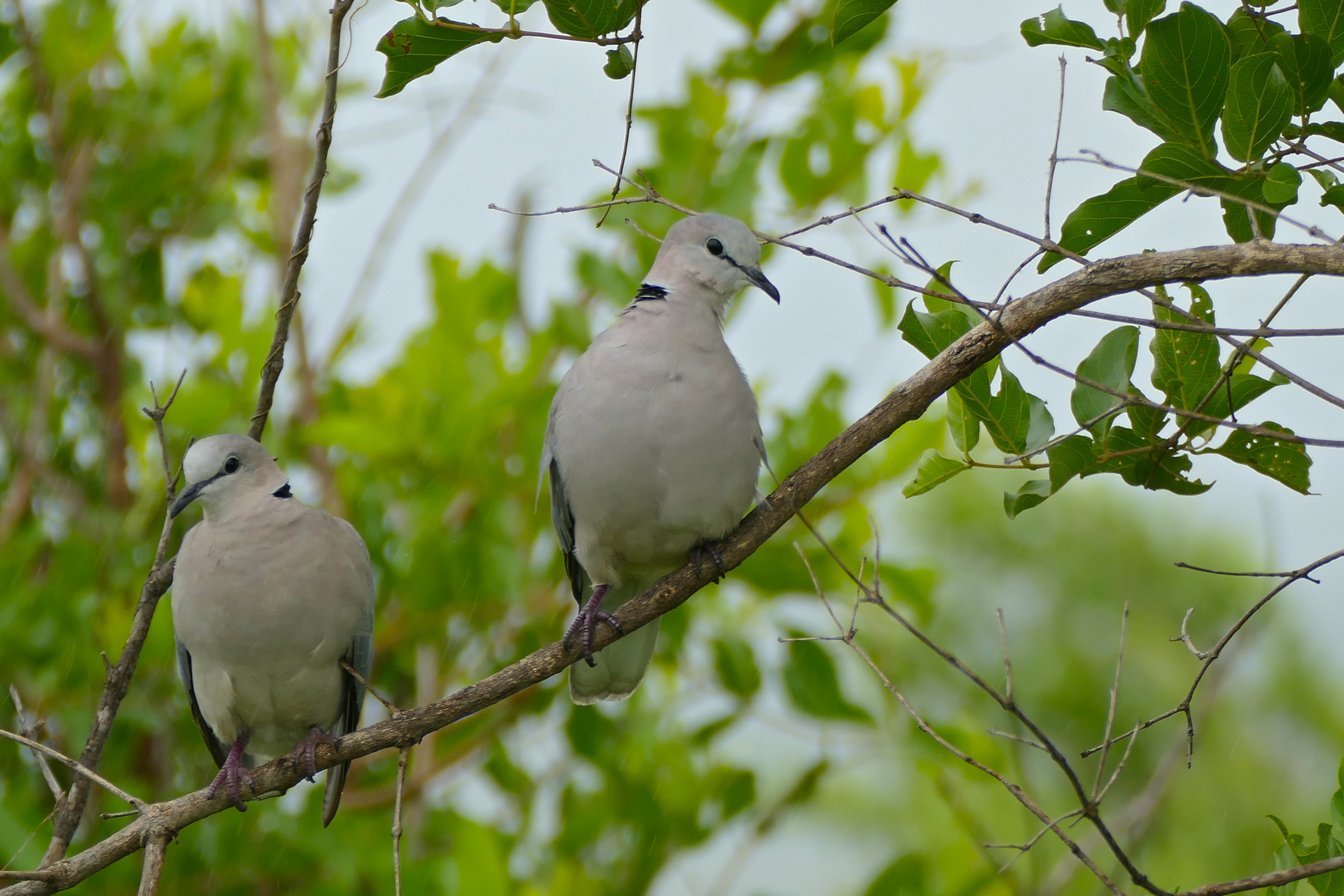 H2-2 Road East of Afsaal, Kruger NP, SOUTH AFRICA